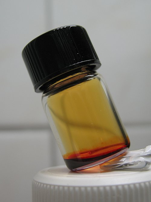 Chromyl chloride in a vial, with chromyl chloride vapor